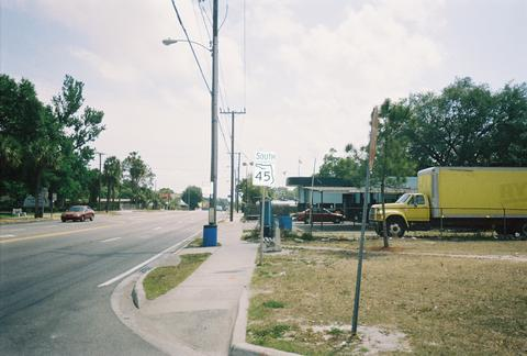 Florida SR 45 in Tampa(Taken April 8, 2006) Category:State highways in Florida Category:Images of Tampa, Florida